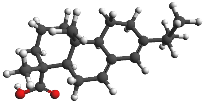 Abietic acid - Made with arguslab